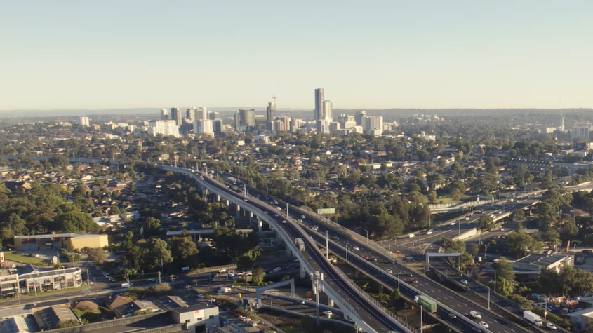 An aerial view of Parramatta taken from a drone